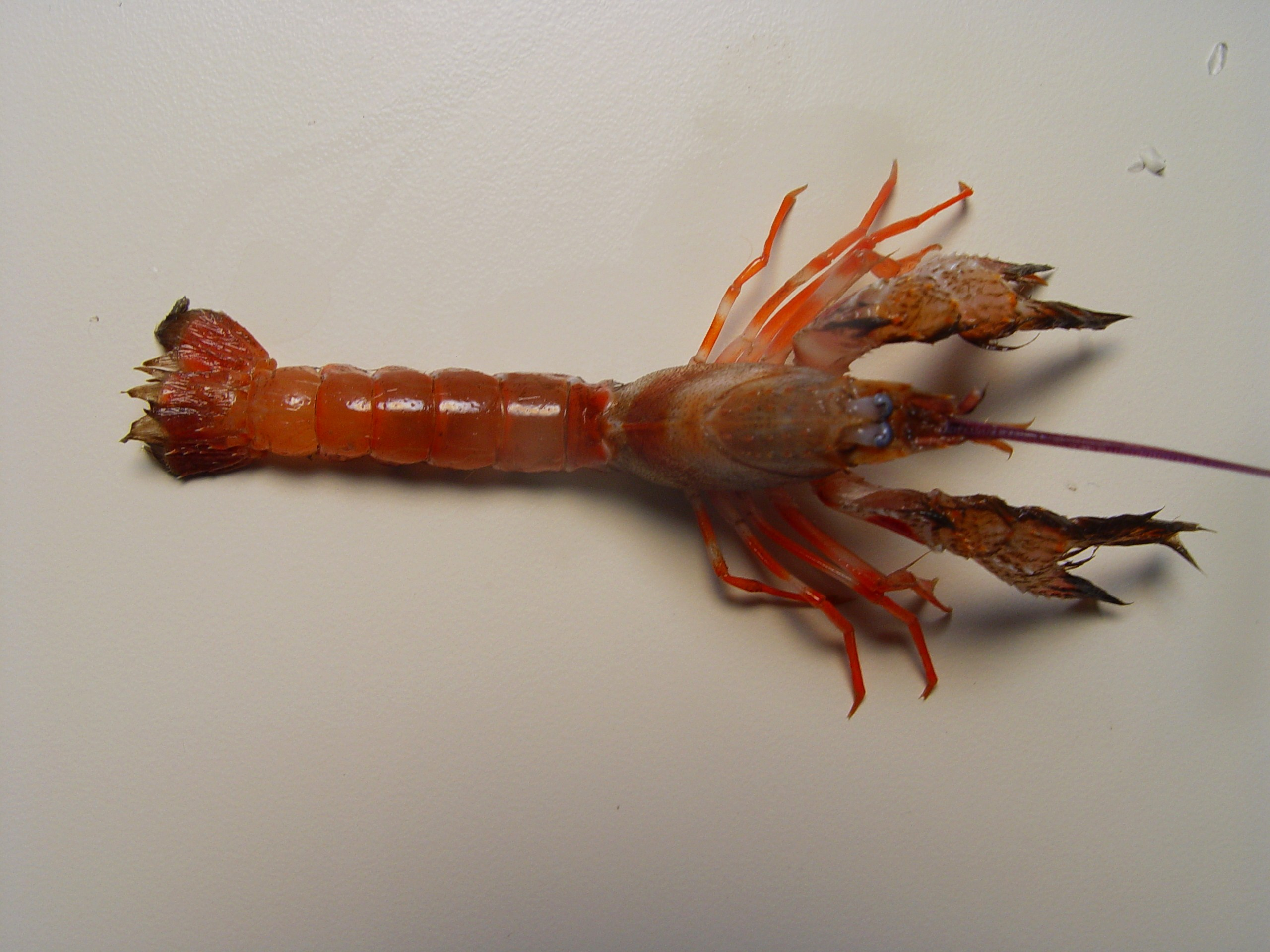 An axiid shrimp (Acanthaxius hirsutimanus) . Gulf of Mexico.